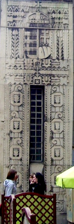 Budapest. VIII. Detail Iron Street School 9-11